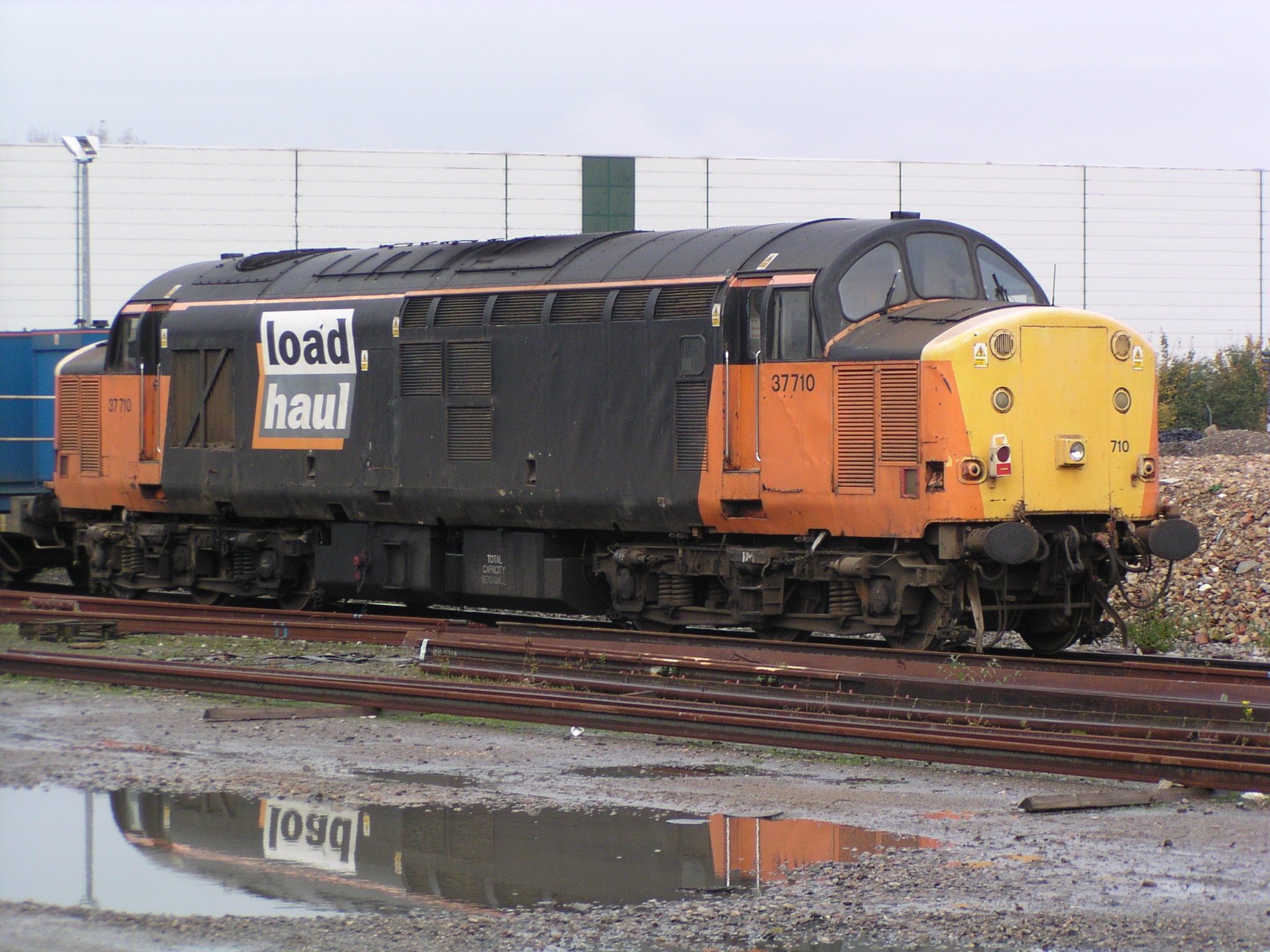 BR Class 37/7 no. 37710 stabled at Didcot on 30th October 2004, in between working water-cannon trains to remove leaves from the lines. This locomotive is owned by EWS but carries obsolete Load-Haul livery.